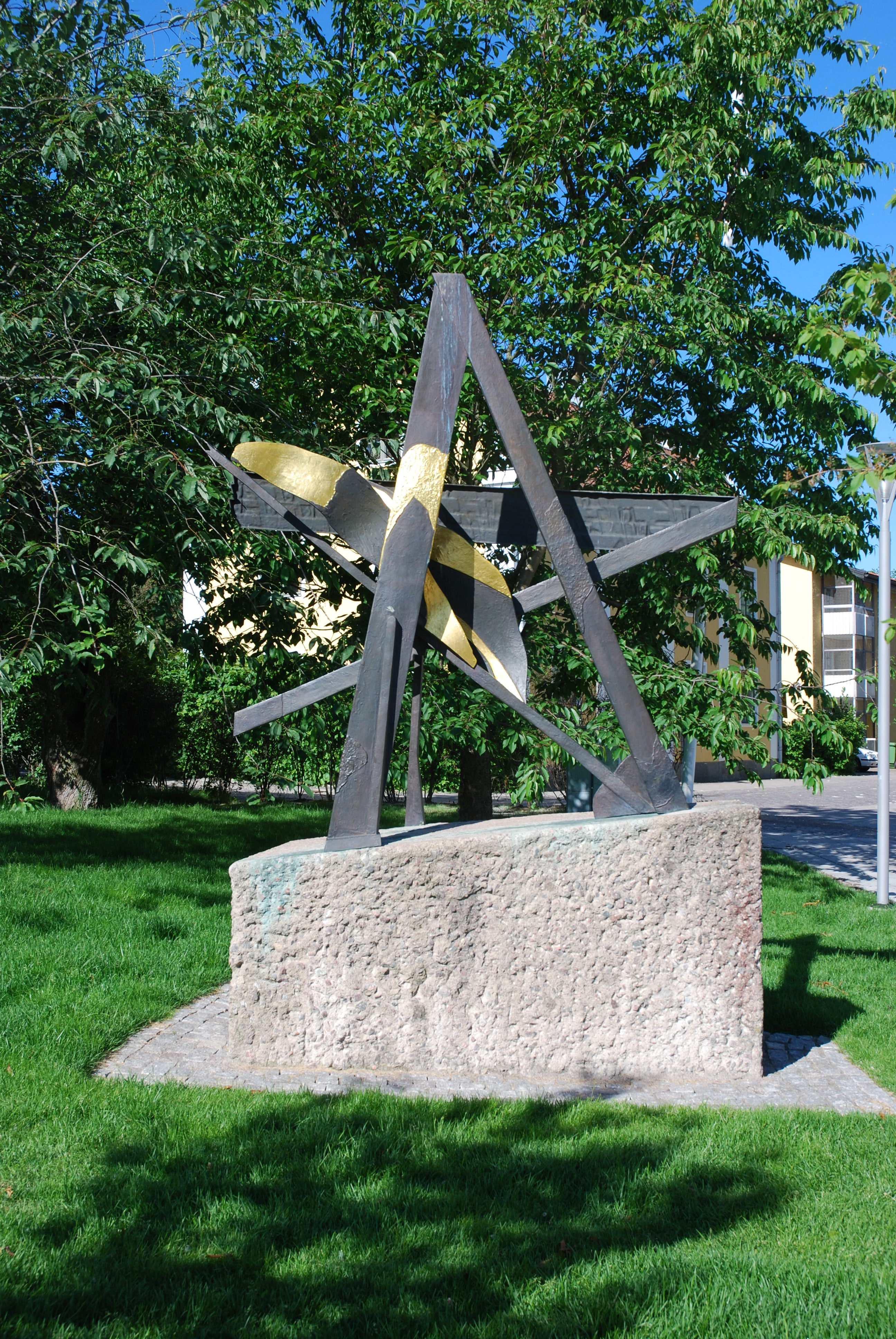 Lenny Clarhäll´s Stjärnan (1989), brons, Olof Palmes Plats, Linköping